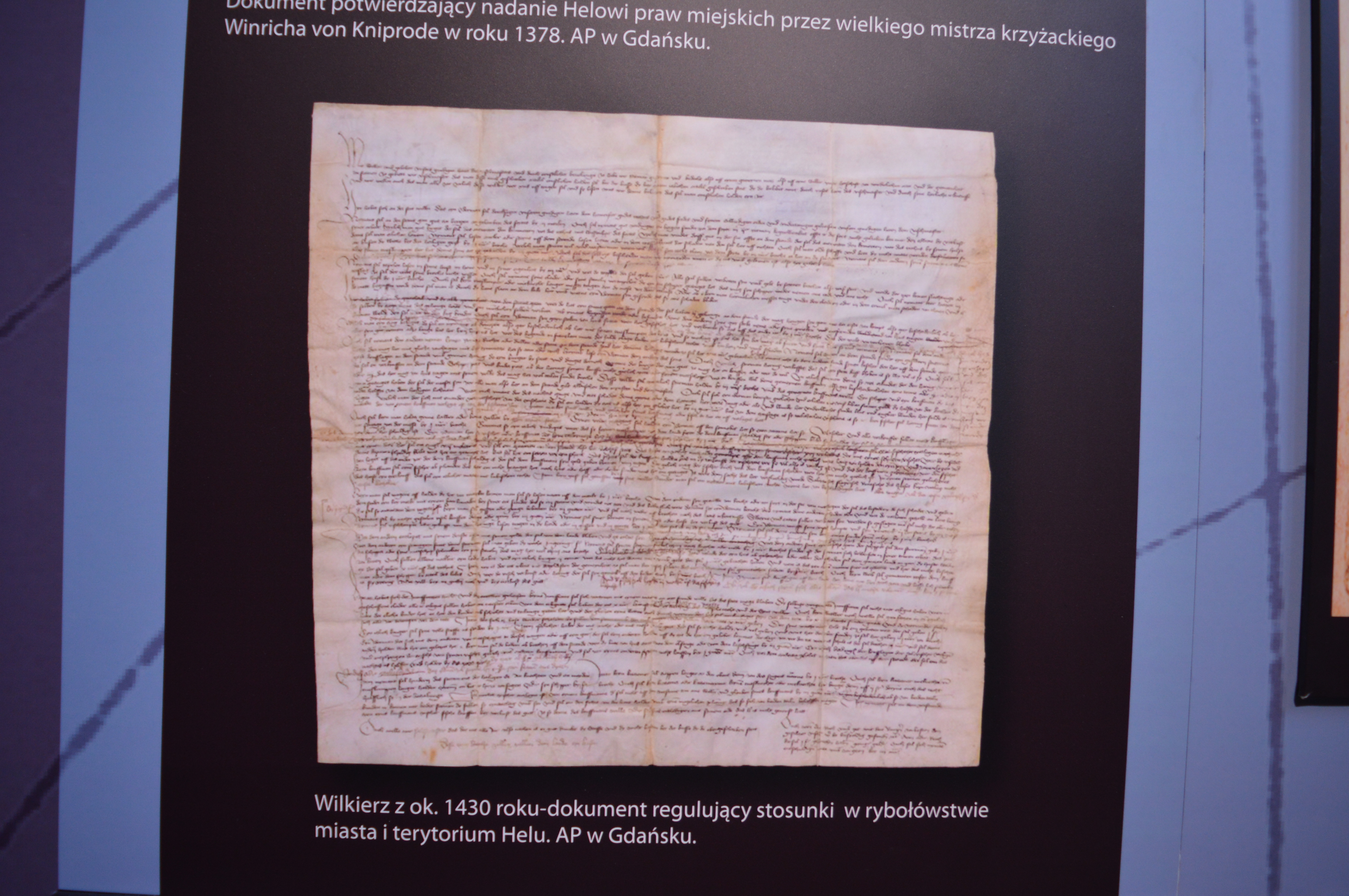 Copy of document concerning fishery and teritory of town Hel, made in abt. 1430. Shown in Museum of Fishhery in Hel, Poland.